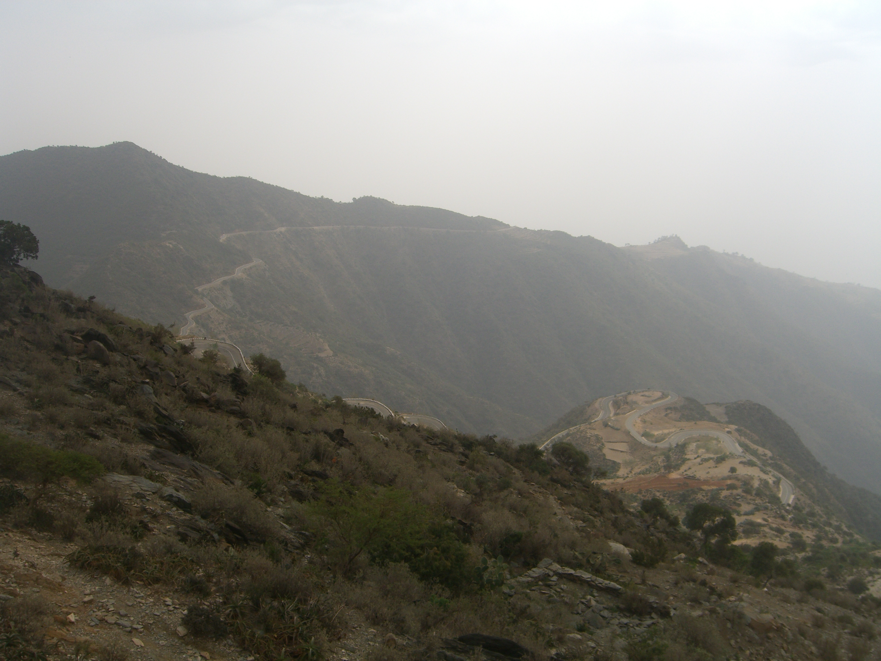 2500 metres above sea level. This mountain road was built by the Italians, damaged during the war for freedom and rebuilt by the heroic Eritrean people recently. Outstanding